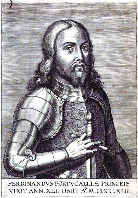 Image of Ferdinand the Holy Prince (Fernando o Infante Santo), a Portuguese royal prince who died a prisoner in Fez in 1443. This image was drawn by royal painter Manuel Soeiro (Emmanuelis Sueyro) and first printed in p.174 of the Anacephalaeoses id est Summa capita actorum regum Lusitaniae by Antonio Vasconcellos, S.J., published 1621 in Antwerp. It is the only known image of Ferdinand the Holy in armor. The accompanying note (p.194), Vasconcellos states it was based on an image of Ferdinand at his own tomb in Batalha monastery but "he is depicted there in a vulgar outfit, whereas here we depict him with the armor of a warrior."